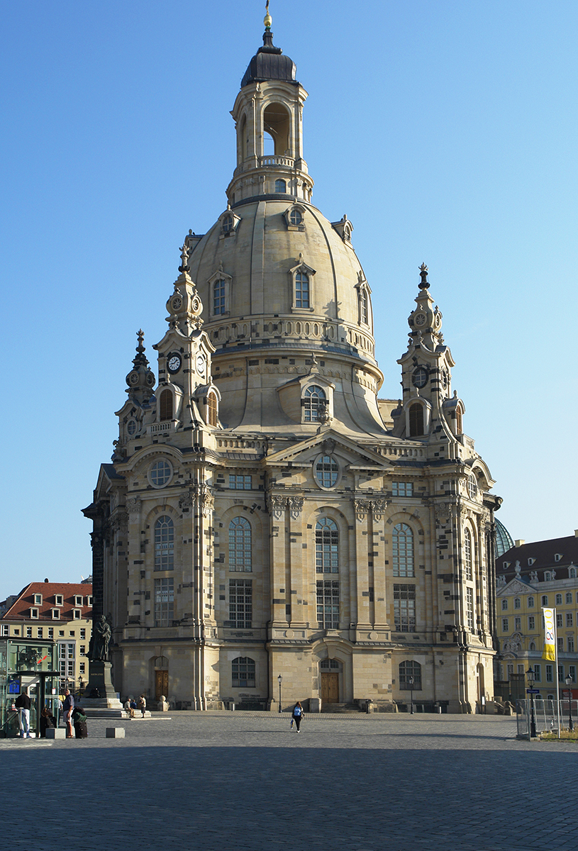 Frauenkirche in Dresden.